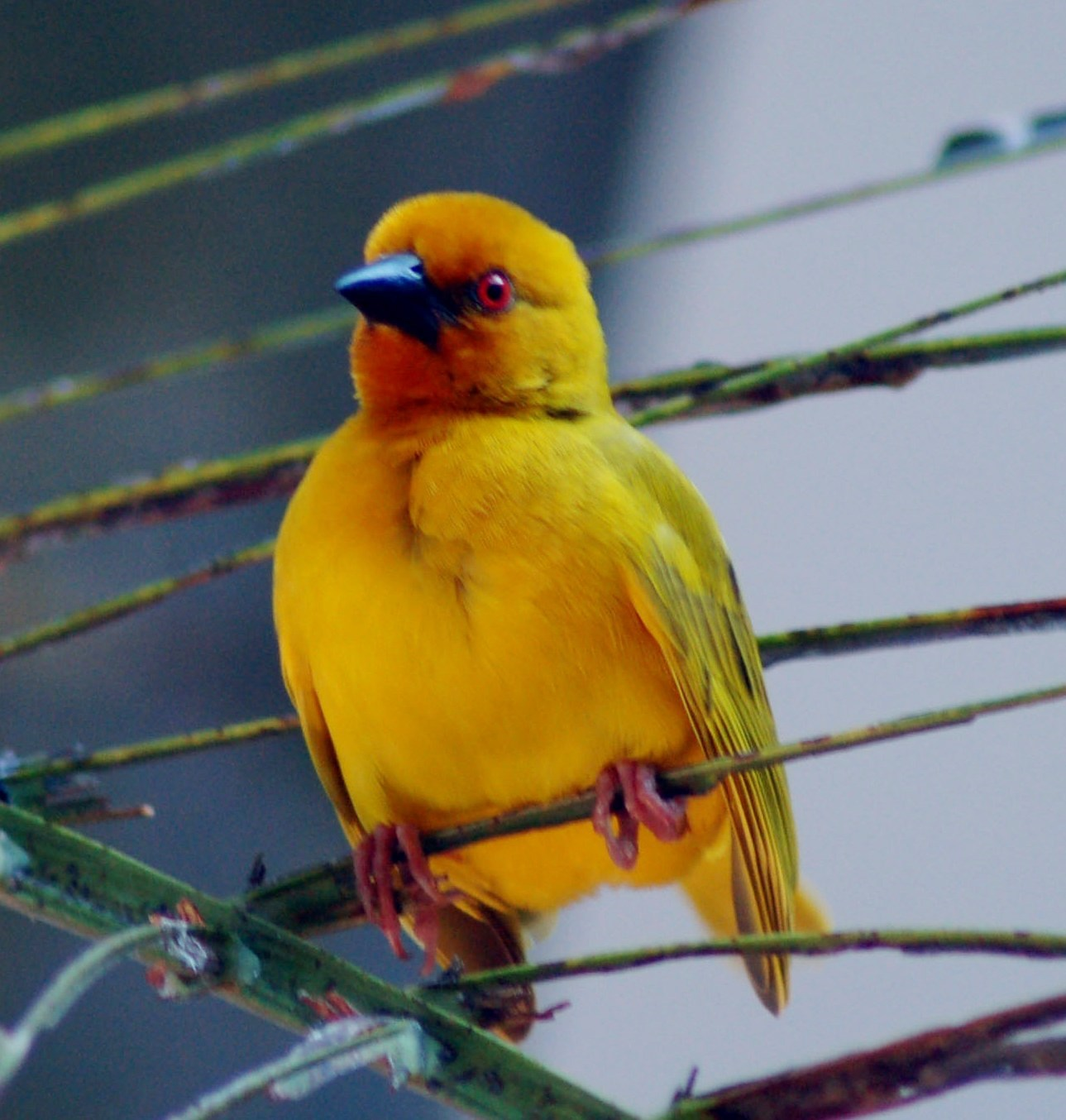 Eastern golden weaver in Zanzibar. Thanks mpgoodey for identifying this bird.